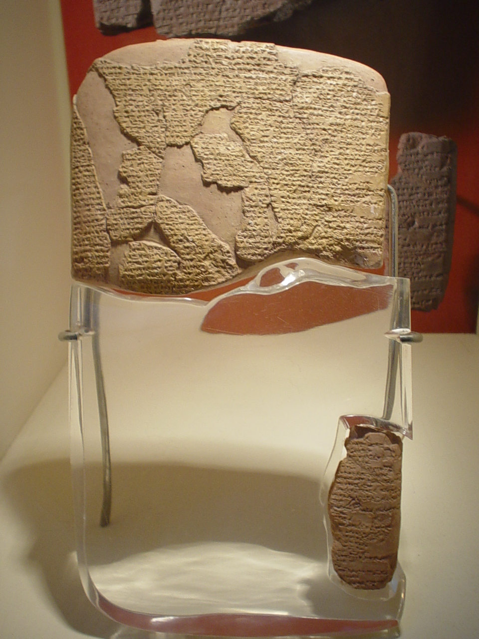 Istanbul Archaeology Museum, Treaty of Kadesh